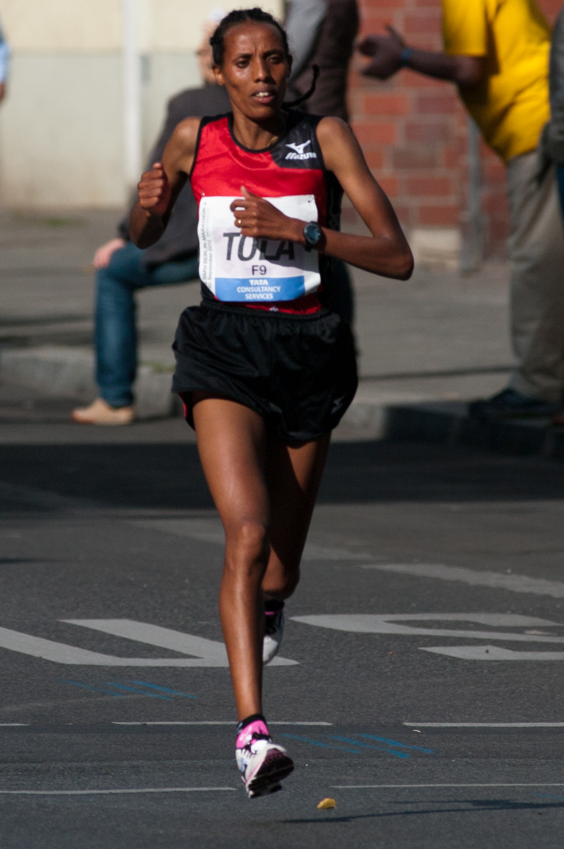 Ethiopian runner Fate Tola at the 2012 Berlin Marathon. Here at Bülowstraße, between Kilometers 36 and 37.